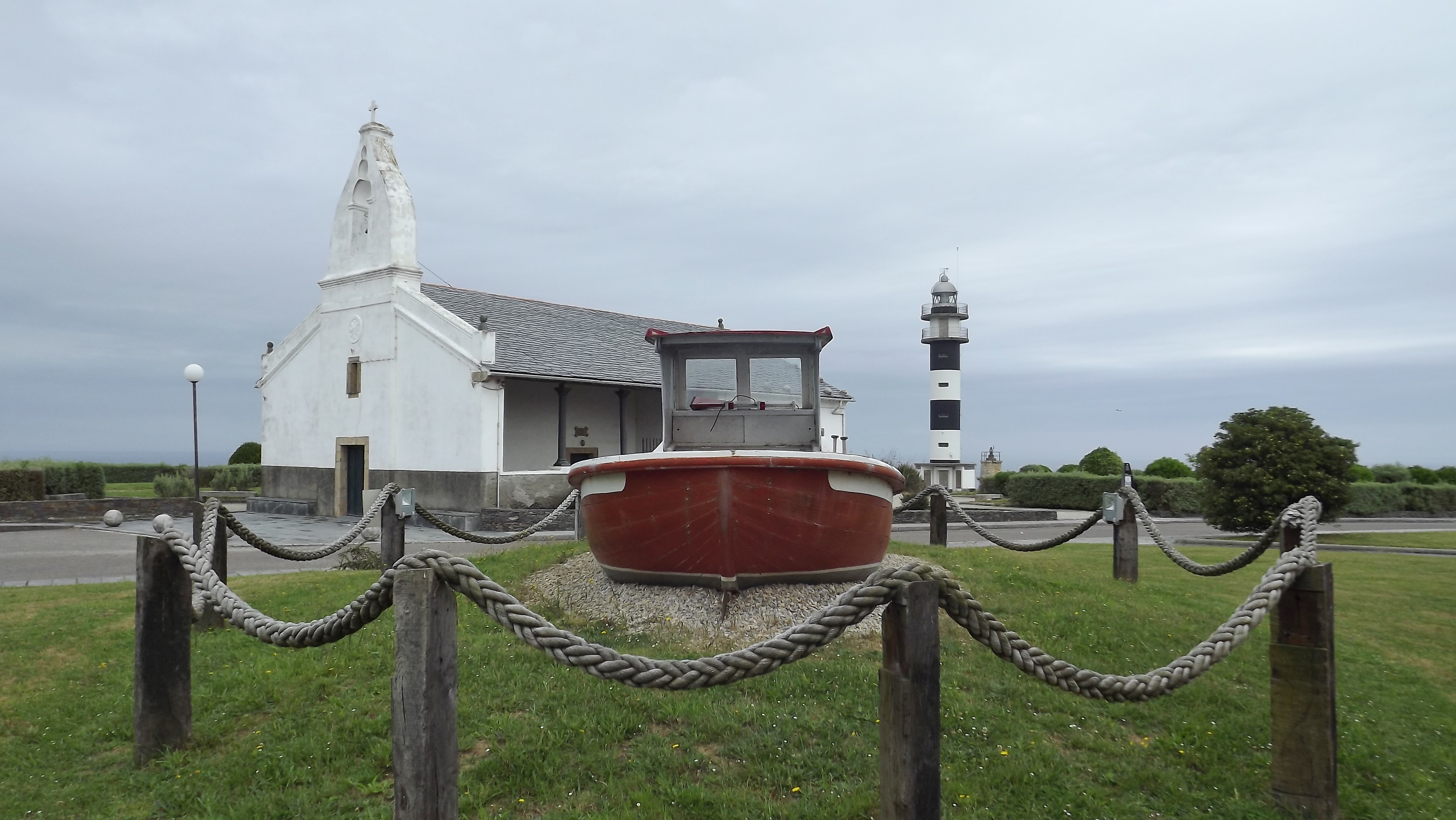 Ortiguera, Cabo San Agustin.